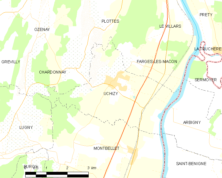 Map of French municipality